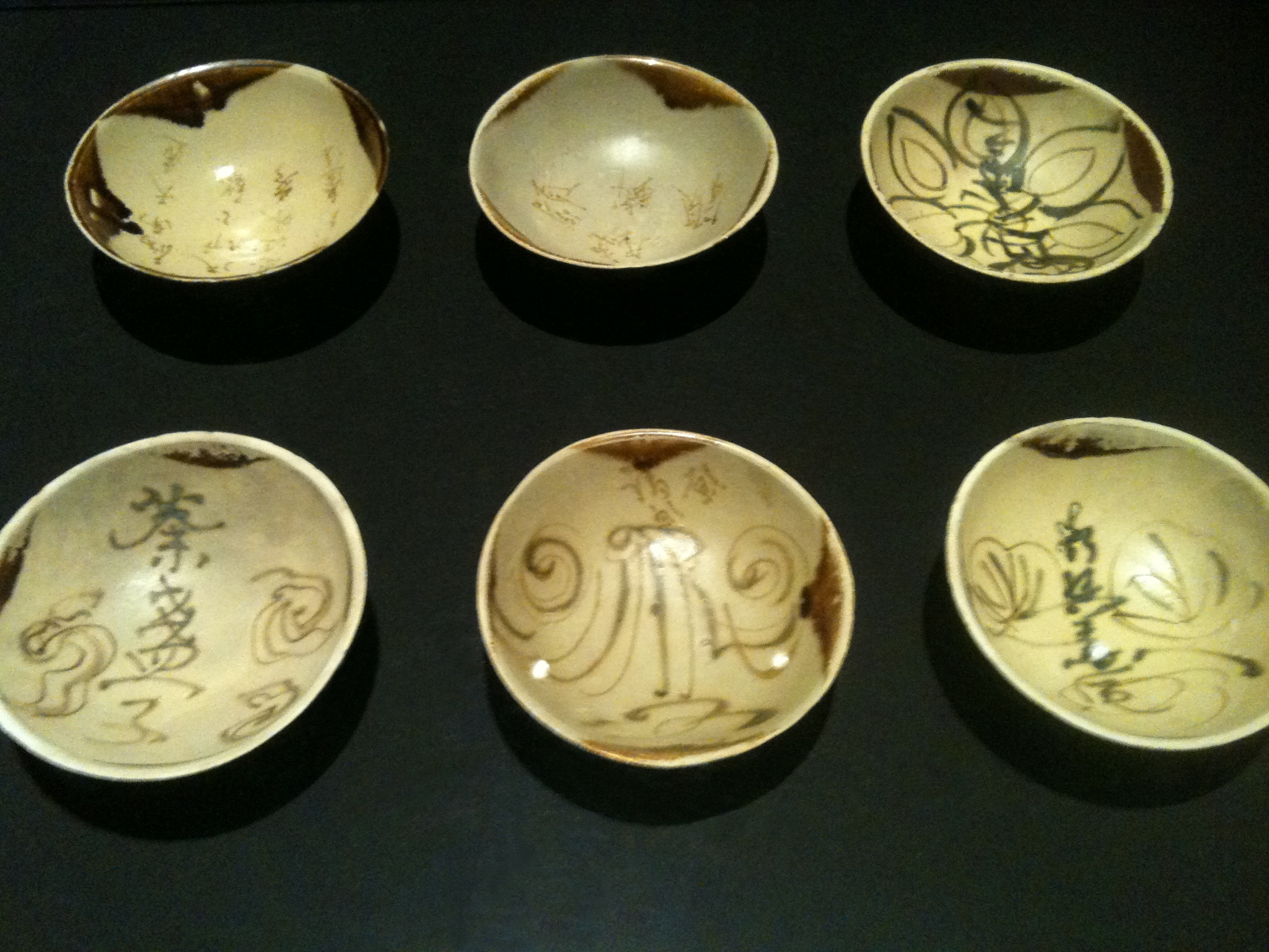 Part of the collection of artifacts from the Belitung shipwreck owned by the Sentosa Leisure Group and the Government of Singapore, photographed while displayed at an exhibition called Shipwrecked: Tang Treasures and Monsoon Winds at the ArtScience Museum, Marina Bay Sands, Singapore, from 19 February 2011 to 31 July 2011.